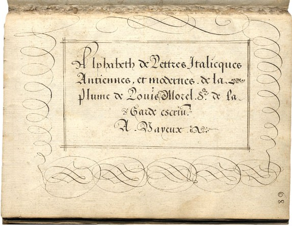 One page from Louis Morel's Alphabet, ca. 1580.